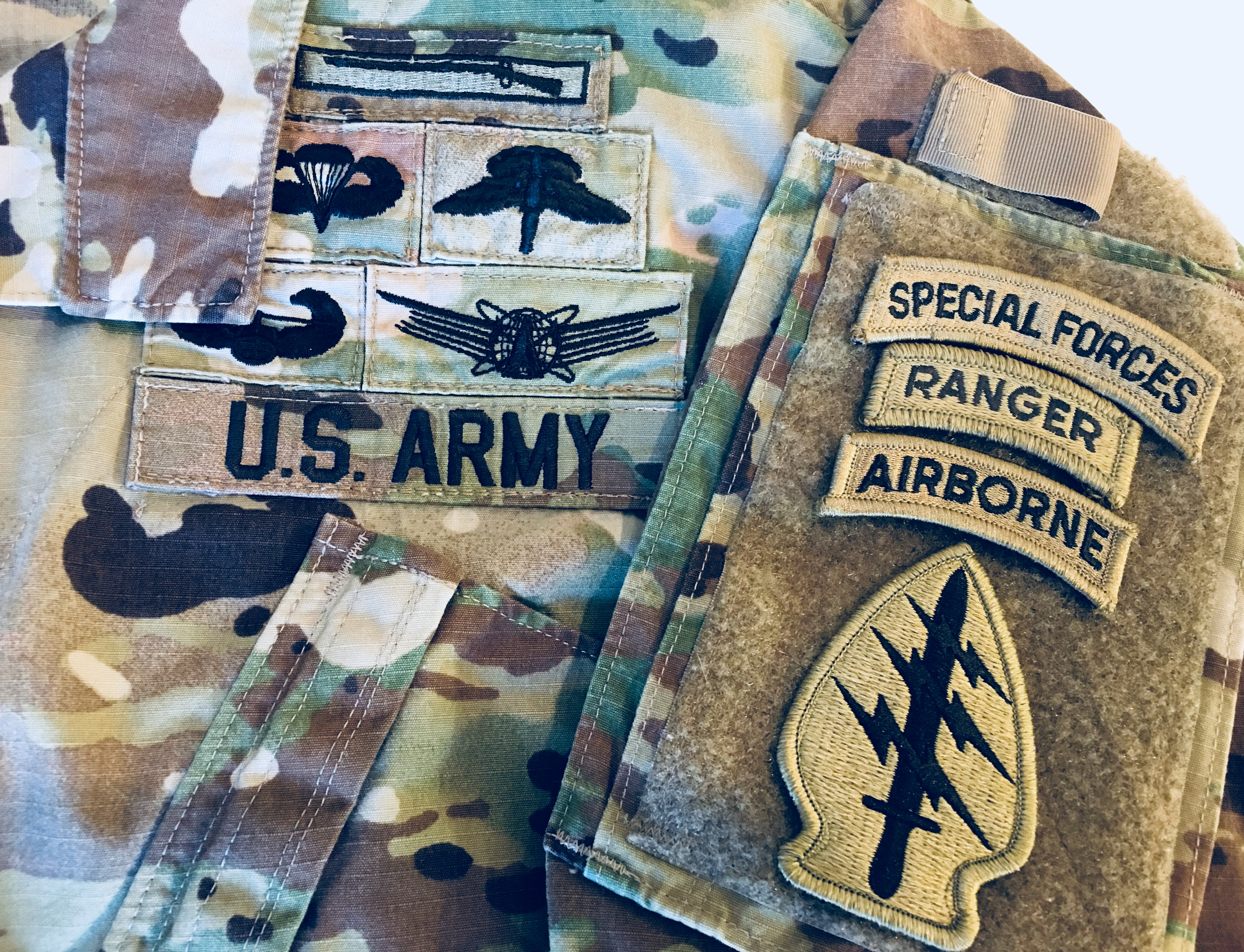 United States Army Operational Camouflage Pattern (OCP) uniform with: Expert Infantryman Badge, Parachutist Badge, Military Free-fall Badge, Air Assault Badge, Space Badge, Special Forces Tab, and Ranger Tab.